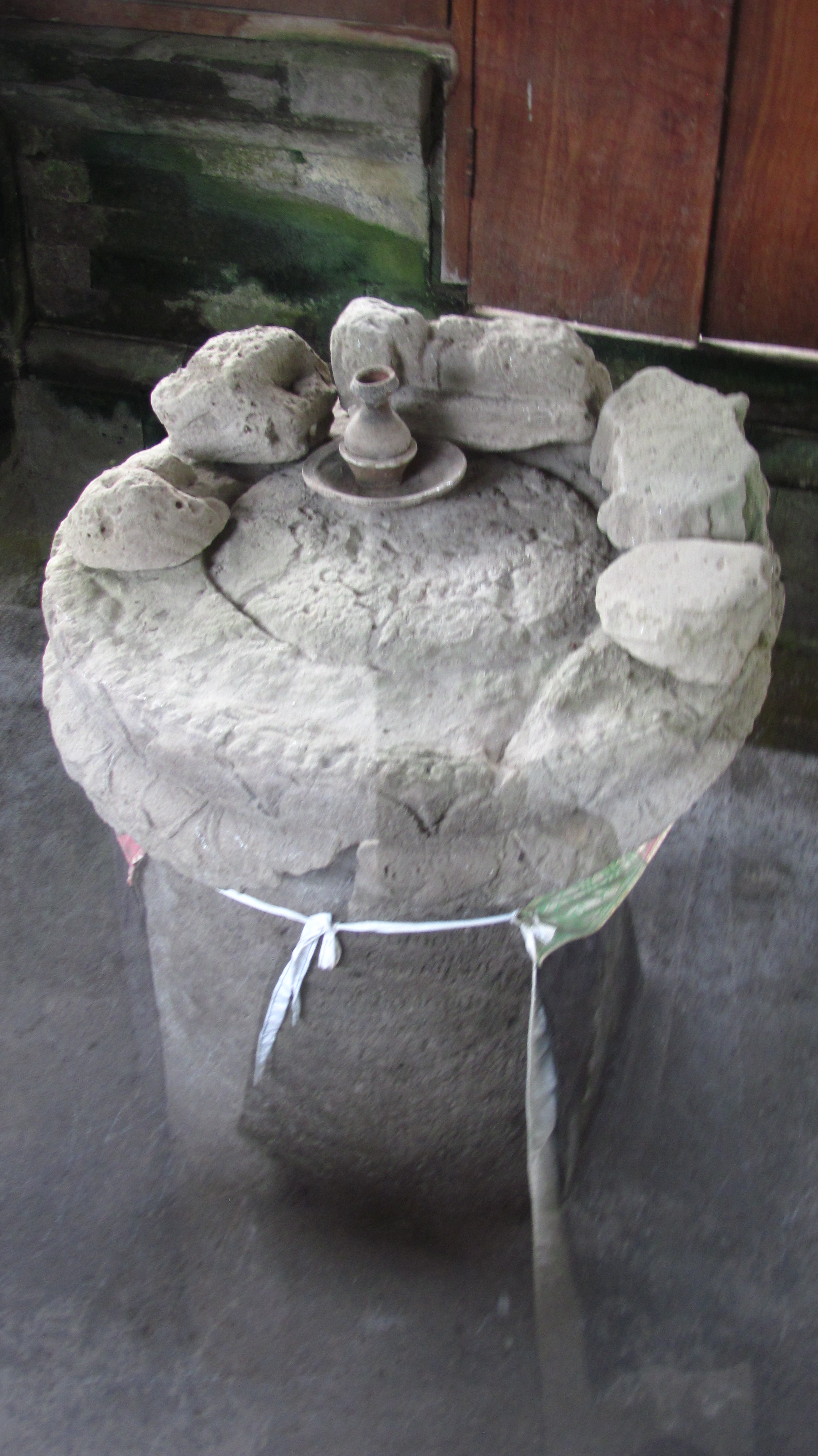 Historic column with inscription in Sanskrit and Balinese, Sanur, Bali, Indonesia